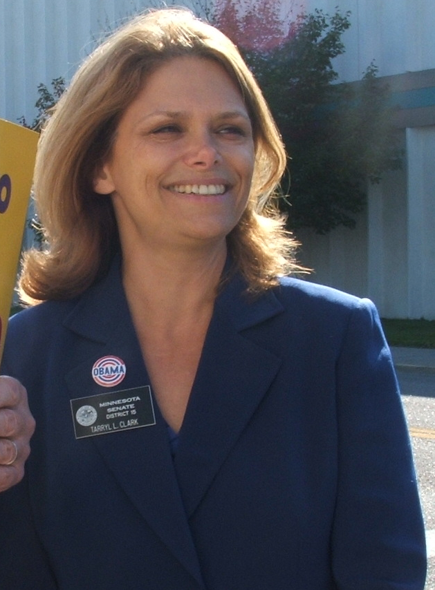 Minnesota State Senator Tarryl Clark at IAM's Electrolux plant in 2008. This file has been extracted from another file: Tarryl Clark 2008.jpg